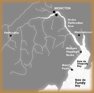 A map of the Petitcodiac River watershed.